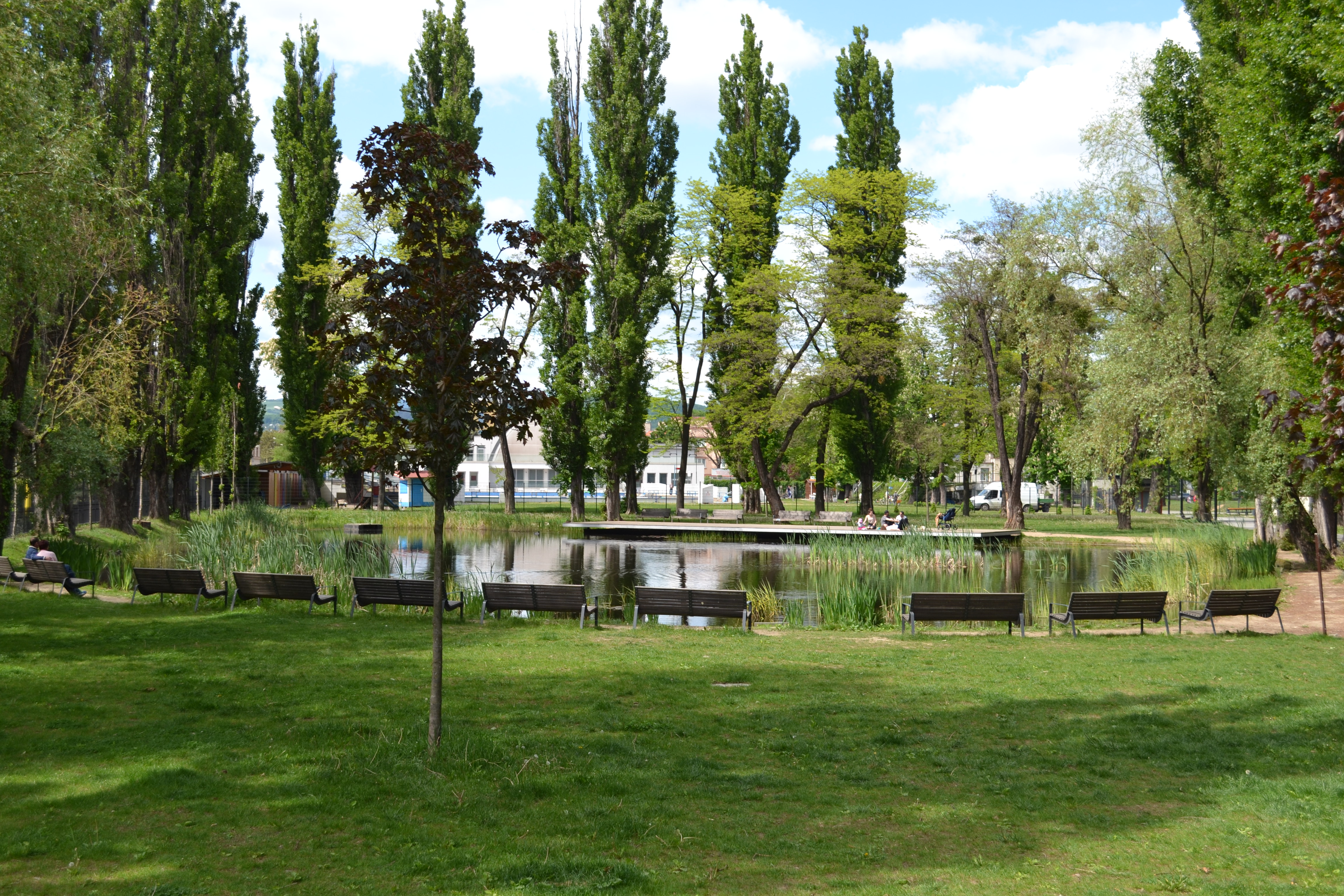 City Park in Košice